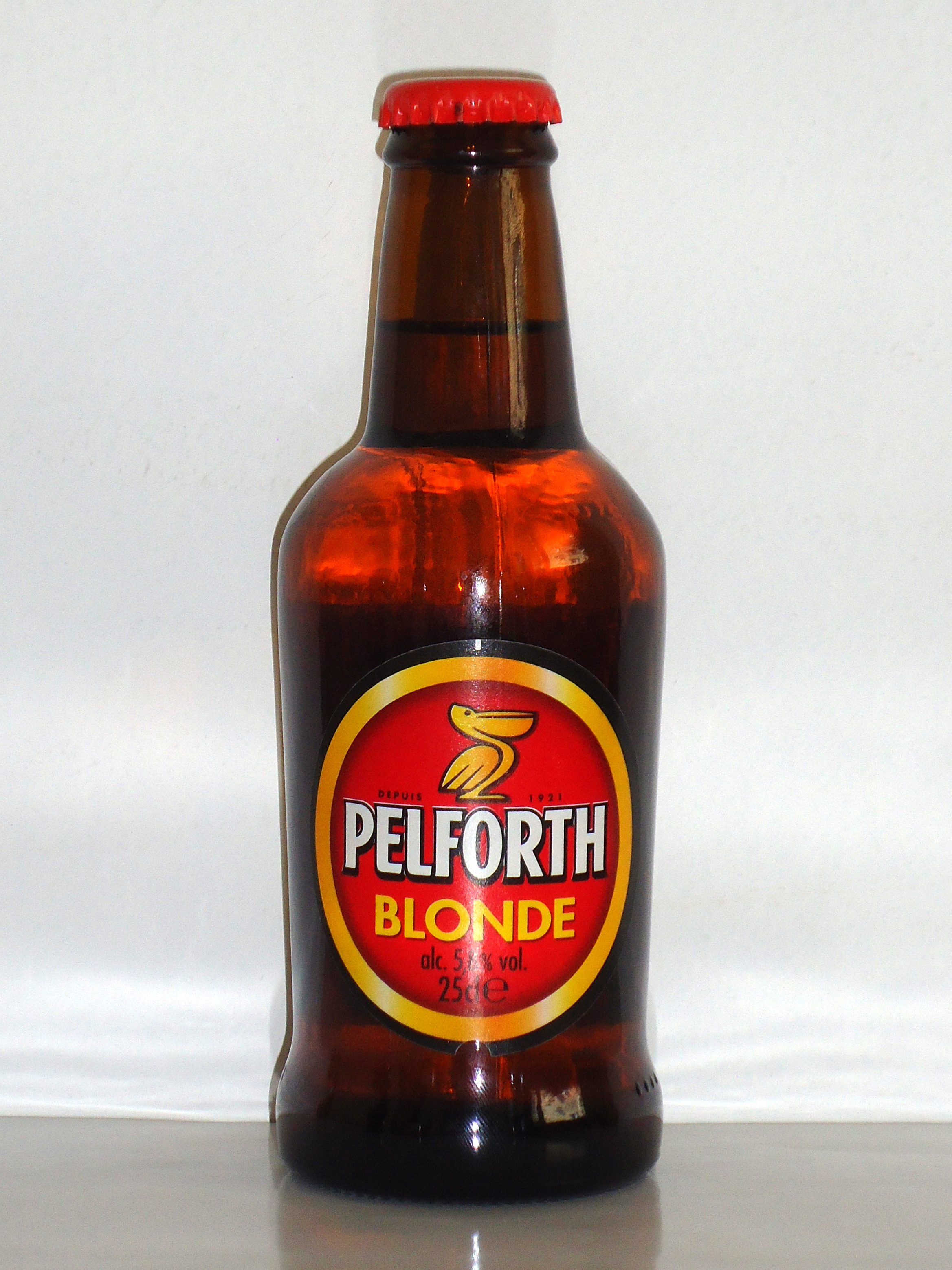 Pelforth blonde